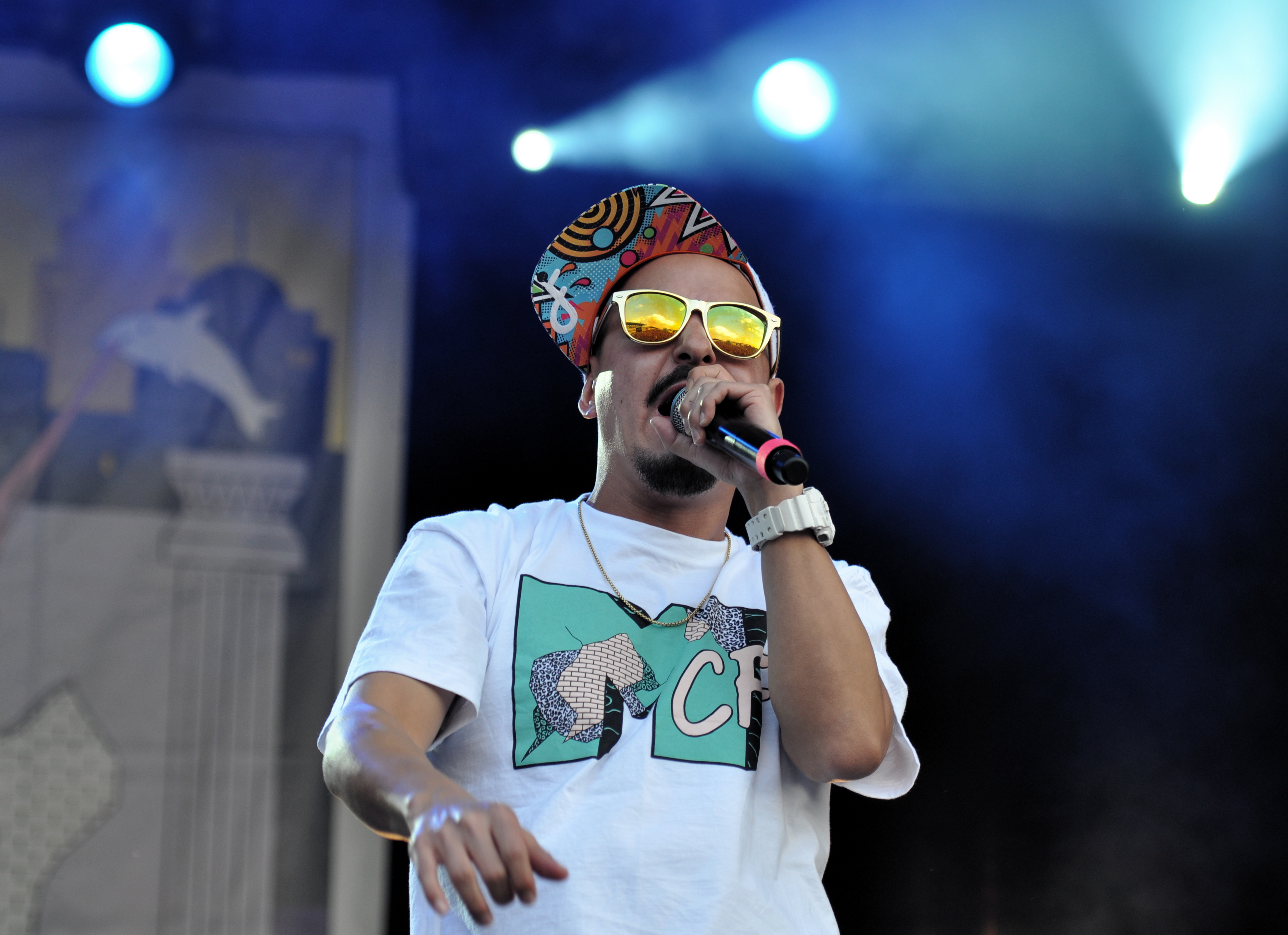 MC Fitti at Rock am Ring 2013